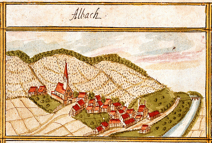 View of Altbach from the forest register books created by Andreas Kieser